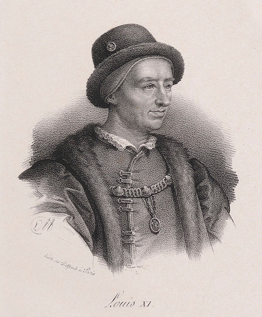 Louis XI of France (1423-1483)